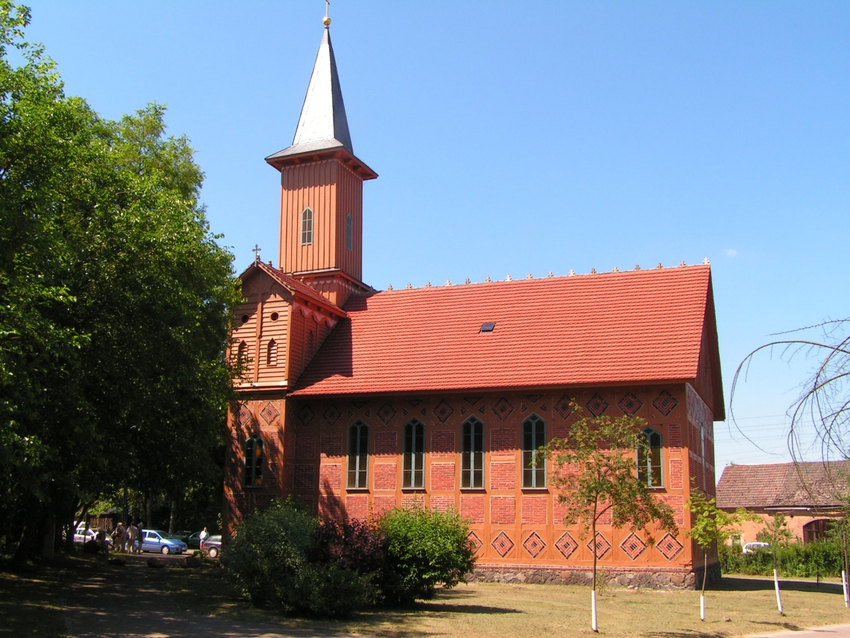 Church in Dabelow, district Mecklenburg-Strelitz, Mecklenburg-Vorpommern, Germany